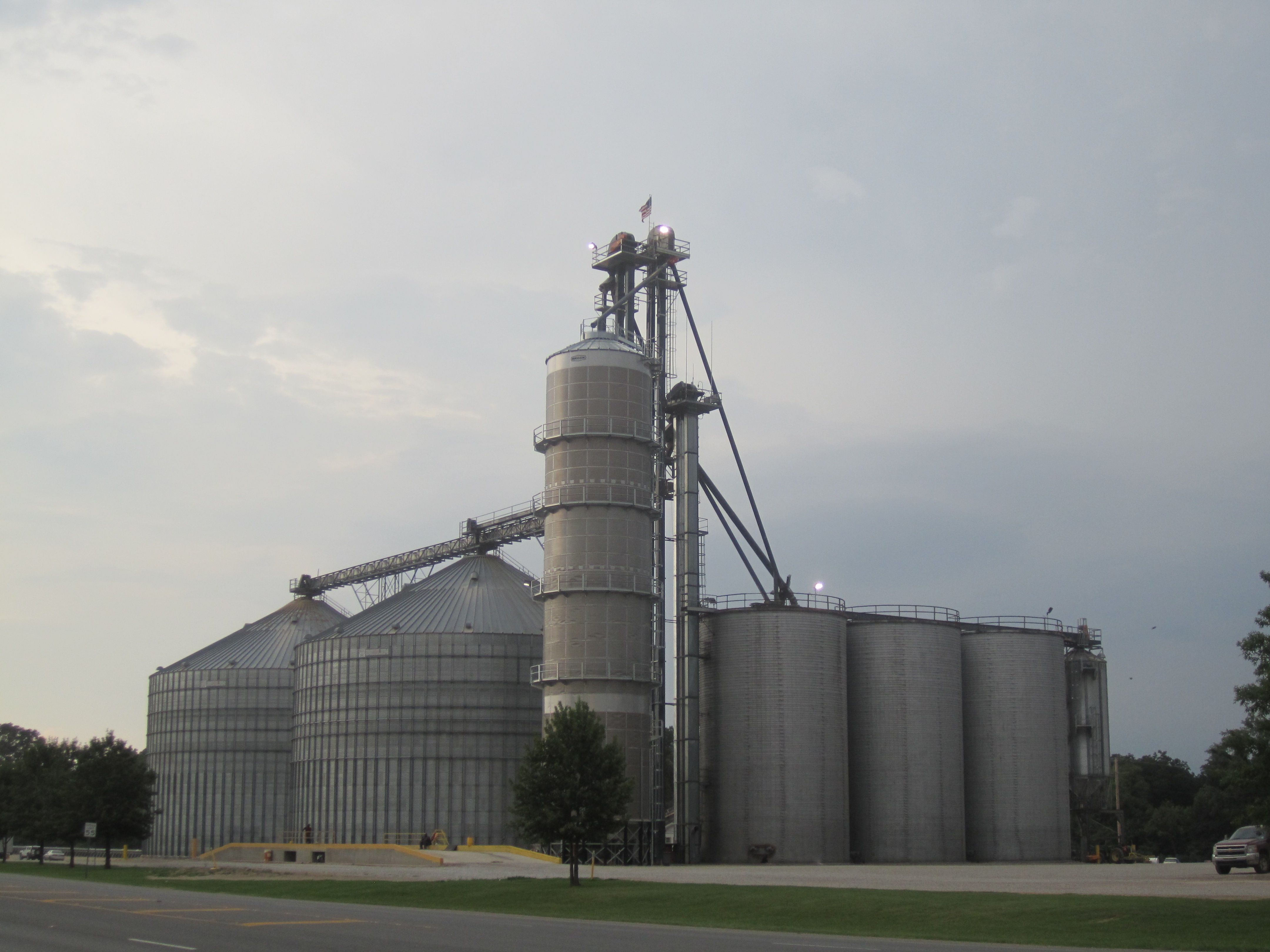 I took photo in Wisner, LA, with Canon camera.